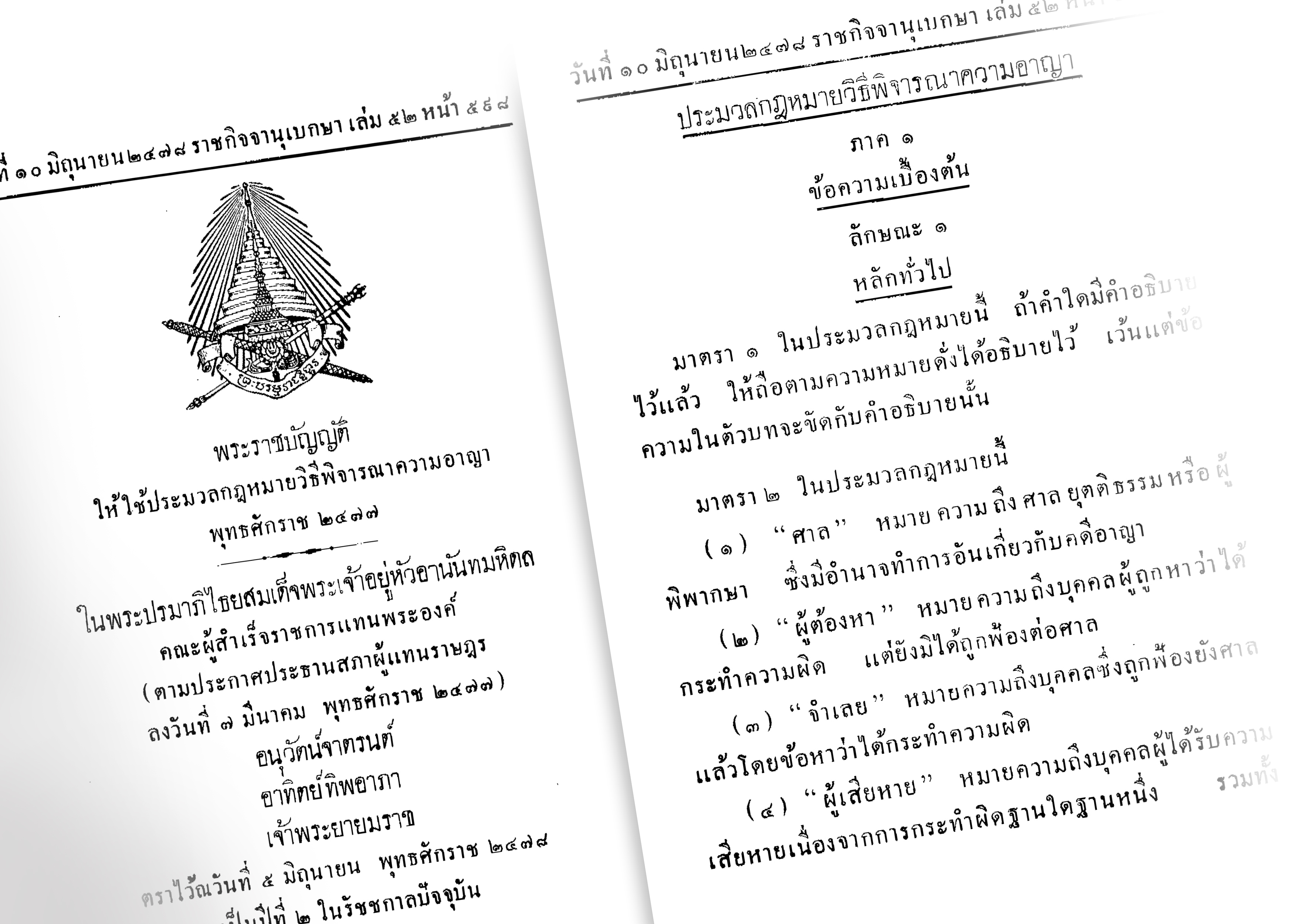 What: (1) (left) The Act Promulgating the Criminal Procedure Code, BE 2477 (1934). (2) (right) The Criminal Procedure Code of Thailand, as promulgated by the Act Promulgating the Criminal Procedure Code, BE 2477 (1934). Where: (1) (left) The Government Gazette of Thailand: volume 52/page 598/June 10, 1935. (2) (right) The Government Gazette of Thailand: volume 52/page 605/June 10, 1935.